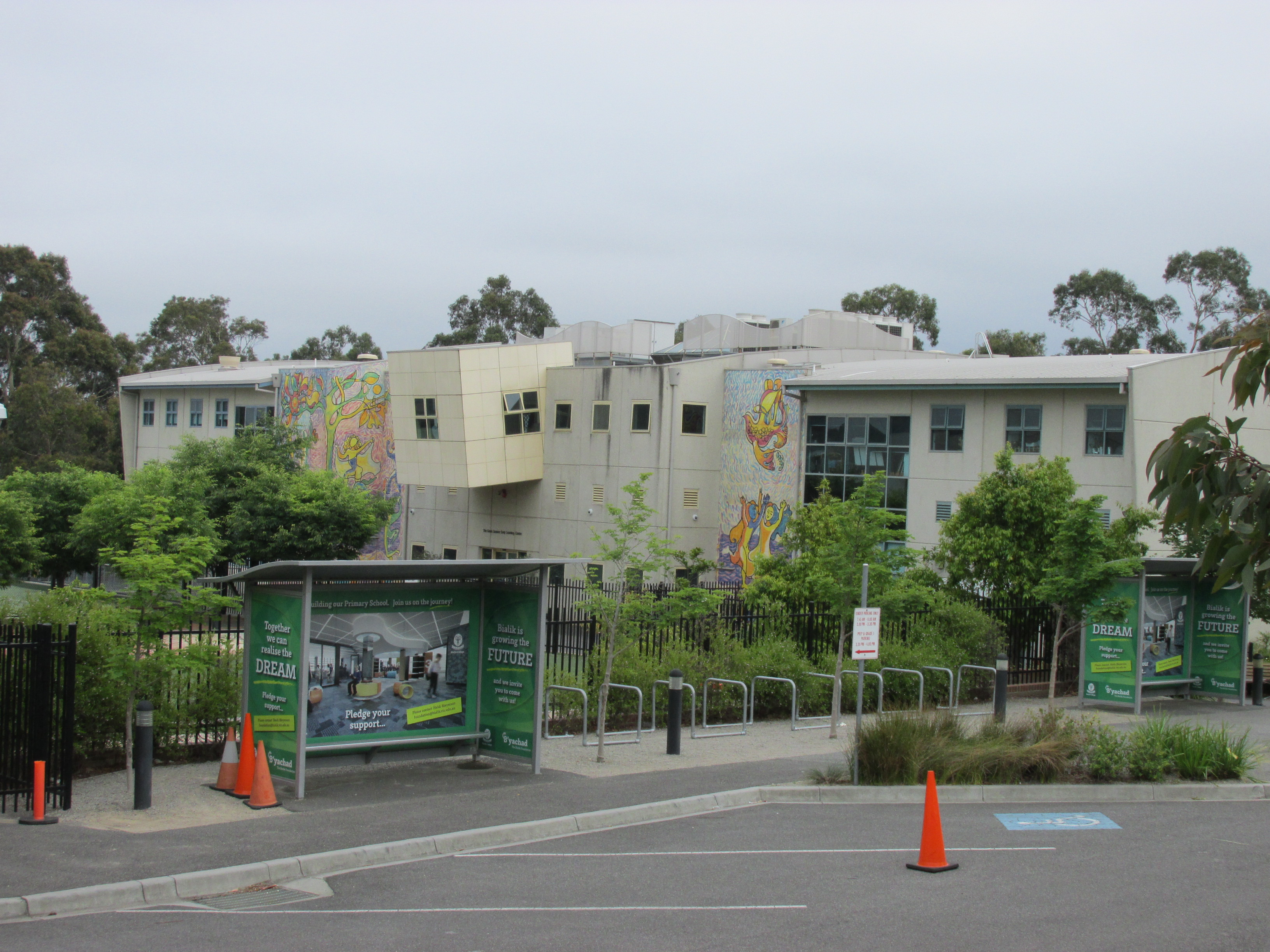 Bialik College, a Jewish day school, in Hawthorn East, Victoria